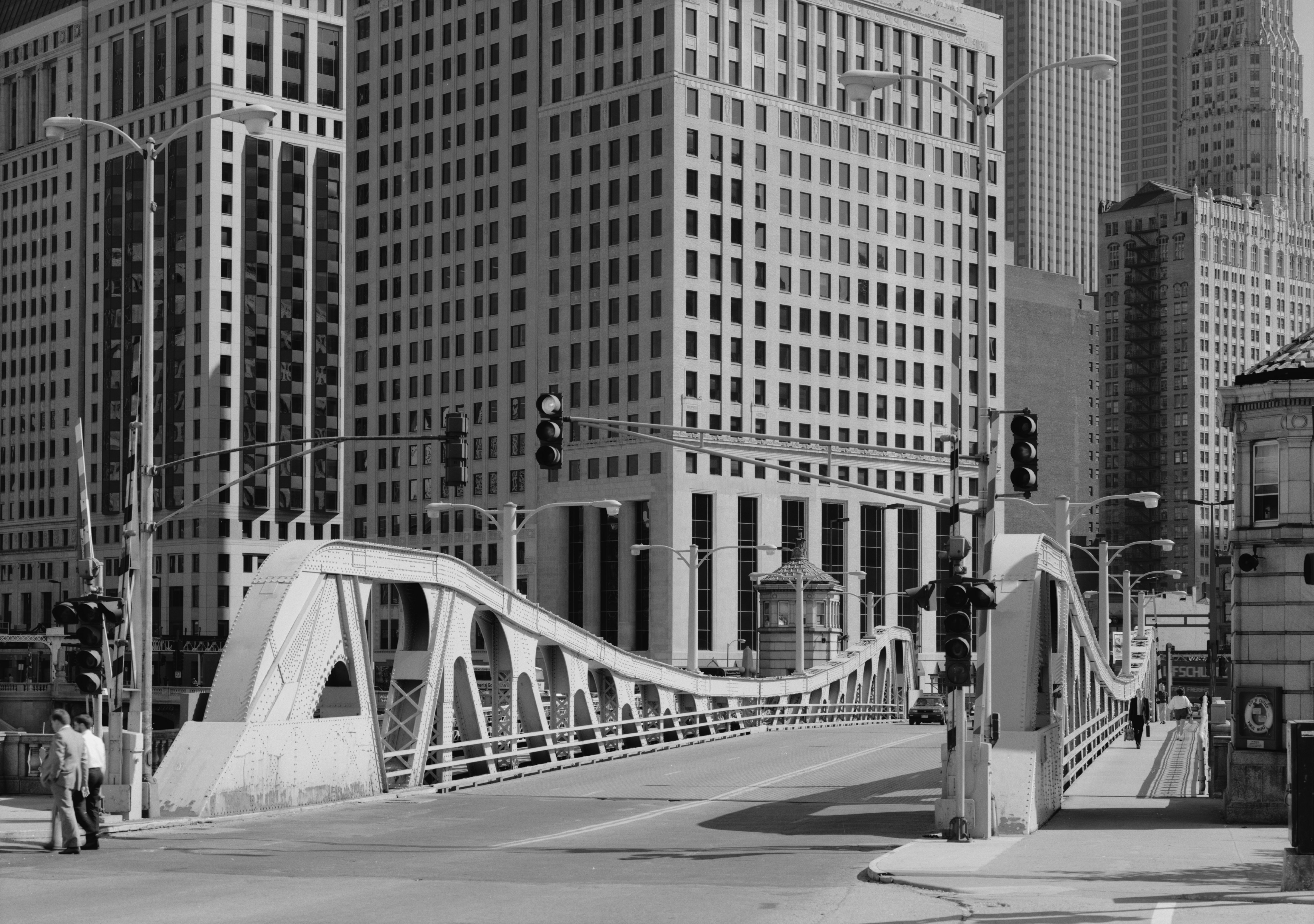 Chicago River Bascule Bridge, Franklin Street, spanning Chicago River at North Franklin Street, Chicago, Cook County, IL. South portal of bridge looking east.